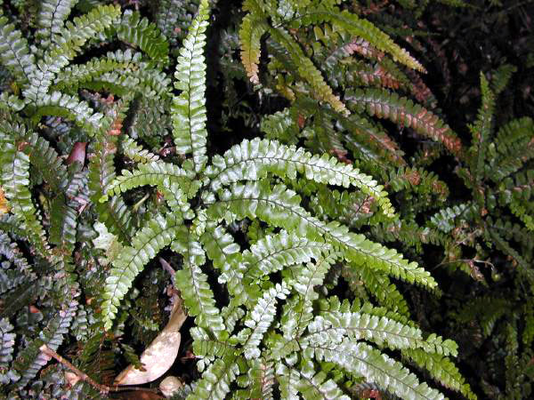 Adiantum hispidulum1.jpg (Rough Maidenhair Fern) Credits : US Geological Survey